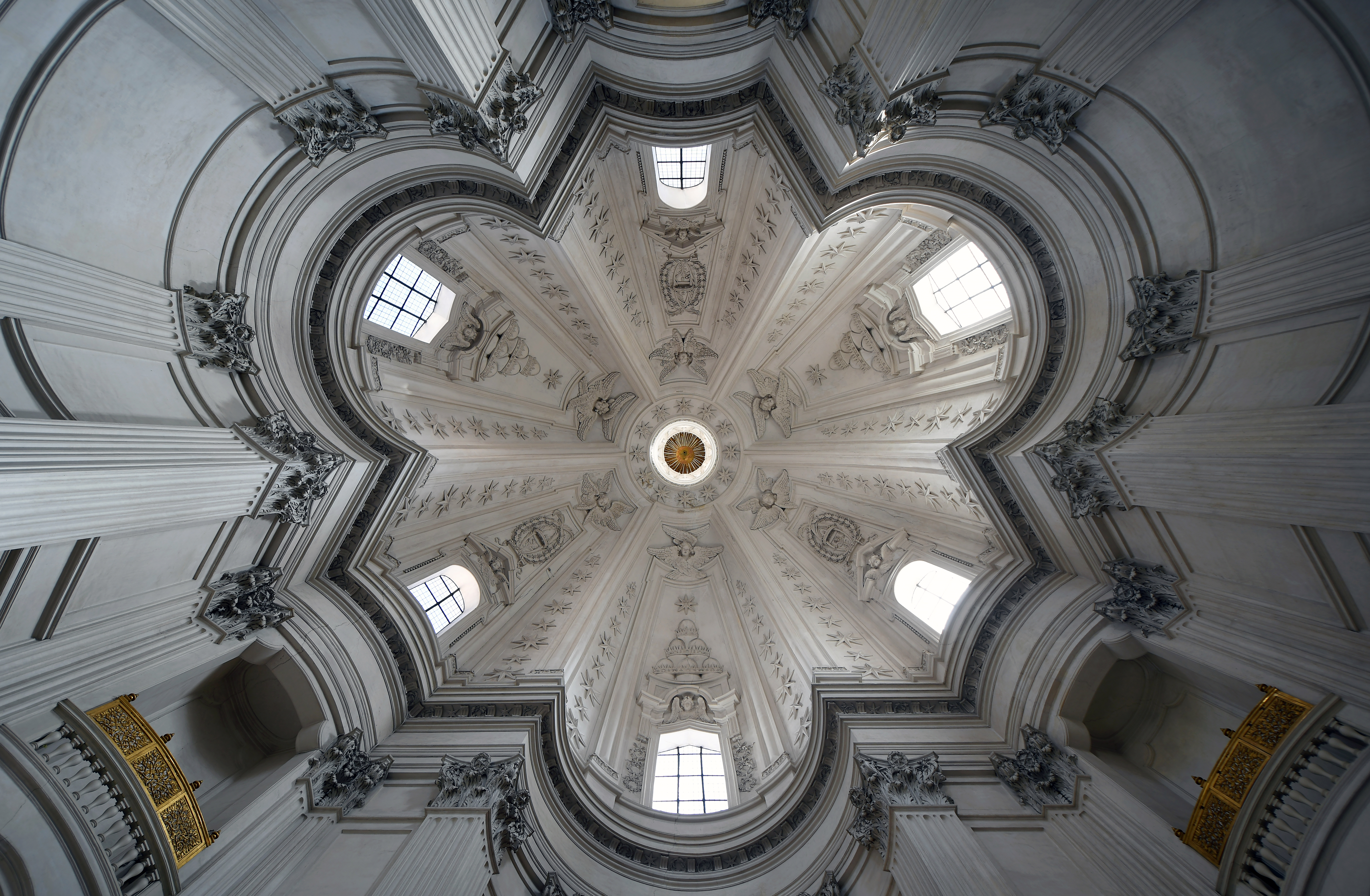 Sant'Ivo alla Sapienza (Roma) - Dome interior